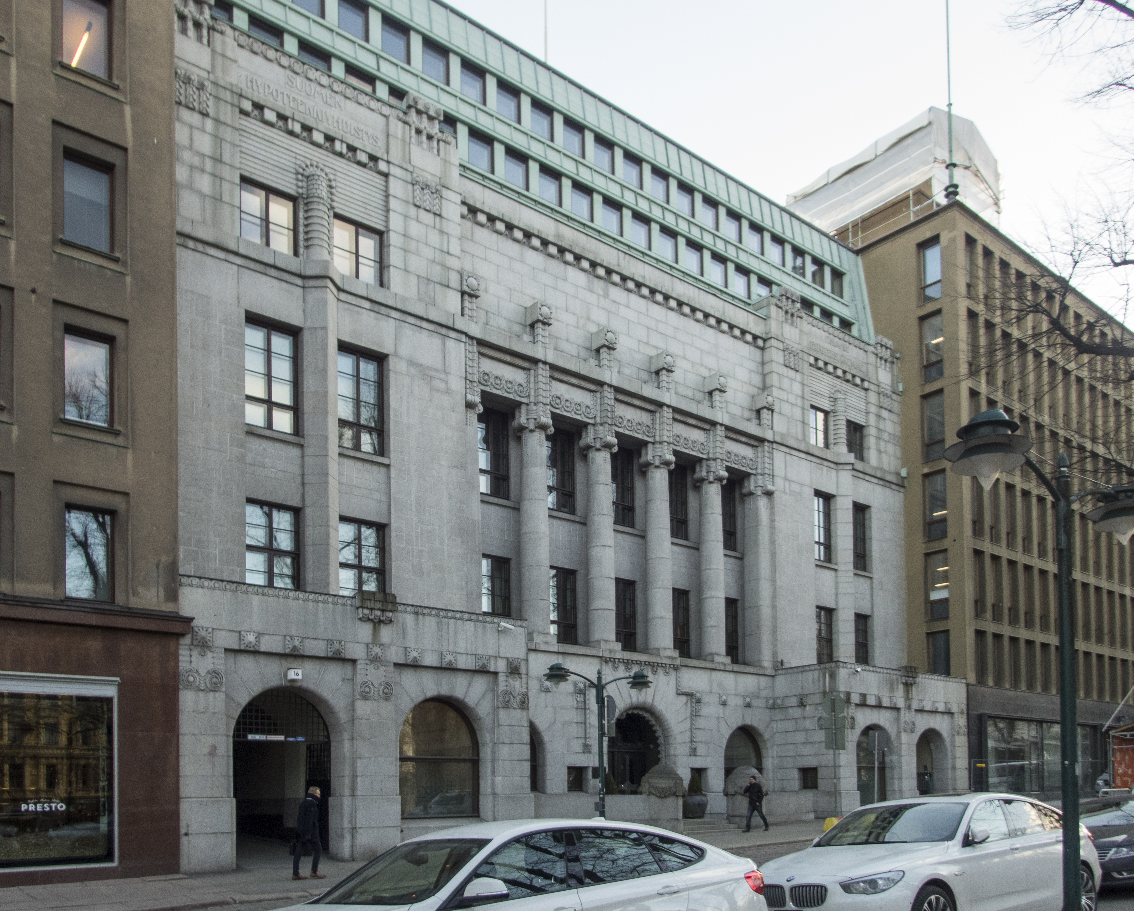 Hypoteekkiyhdistys, Eteläesplanadi 16, Built in 1908. Arkitekt Lars Sonck. Additional stories added in 1957